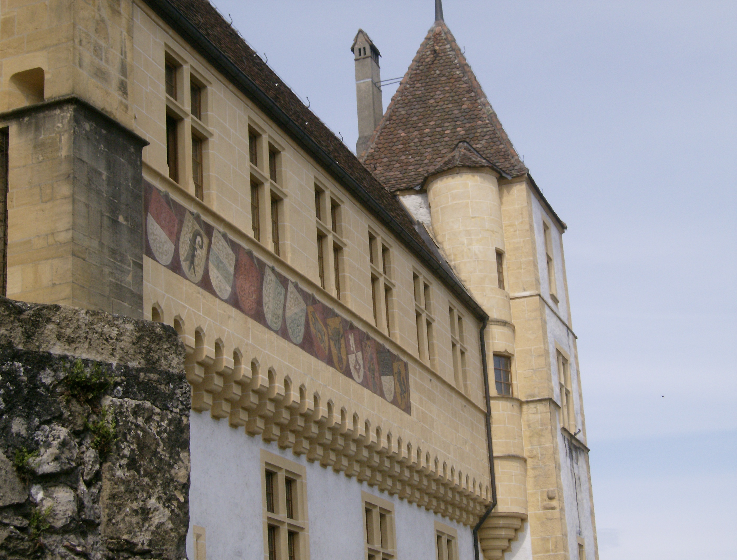 The south wall of the castle of Neuchâtel, with the flags of many townships